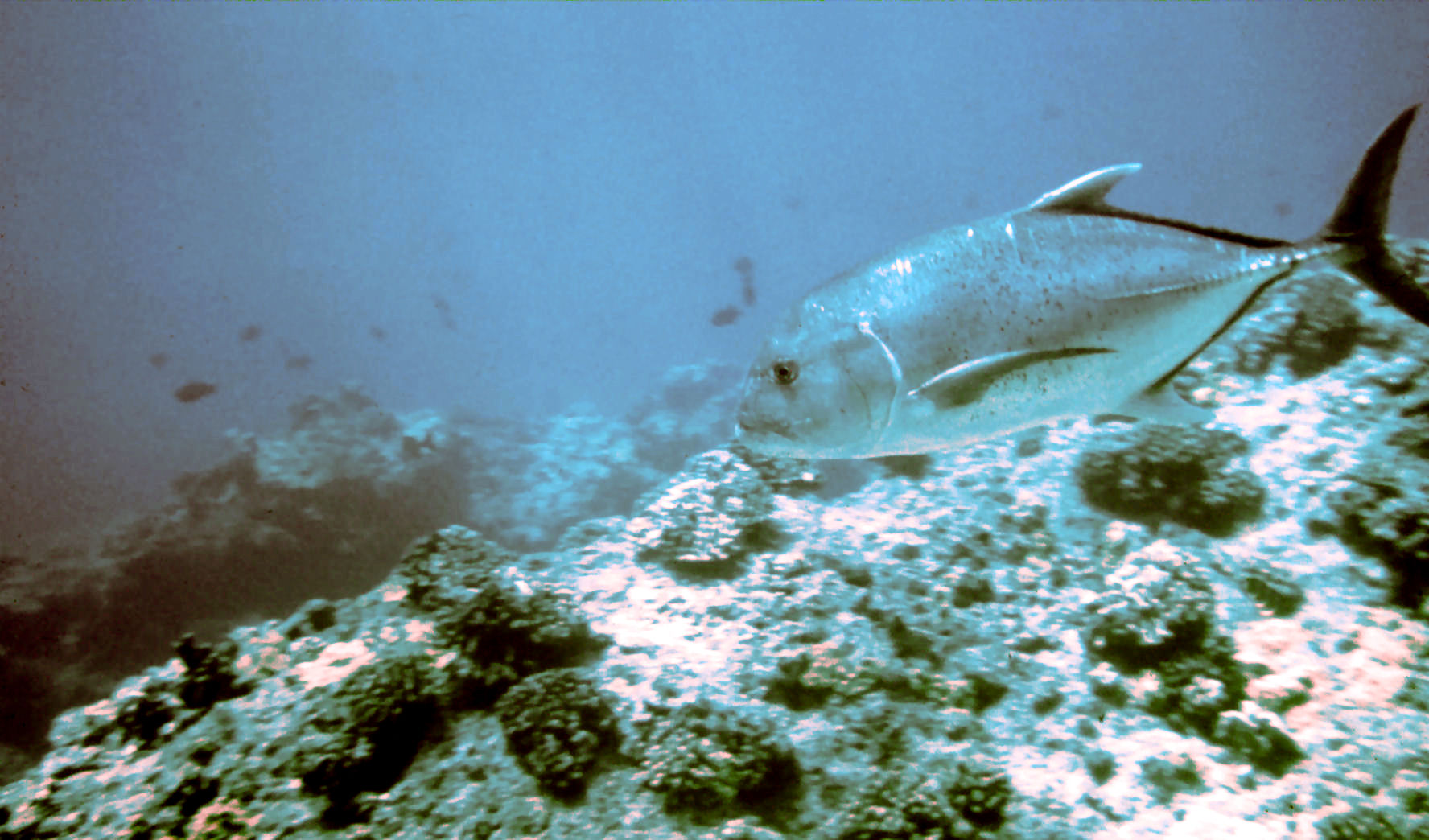 Image ID: reef0408, NOAA's Coral Kingdom Collection. A giant trevally swimming over a reef